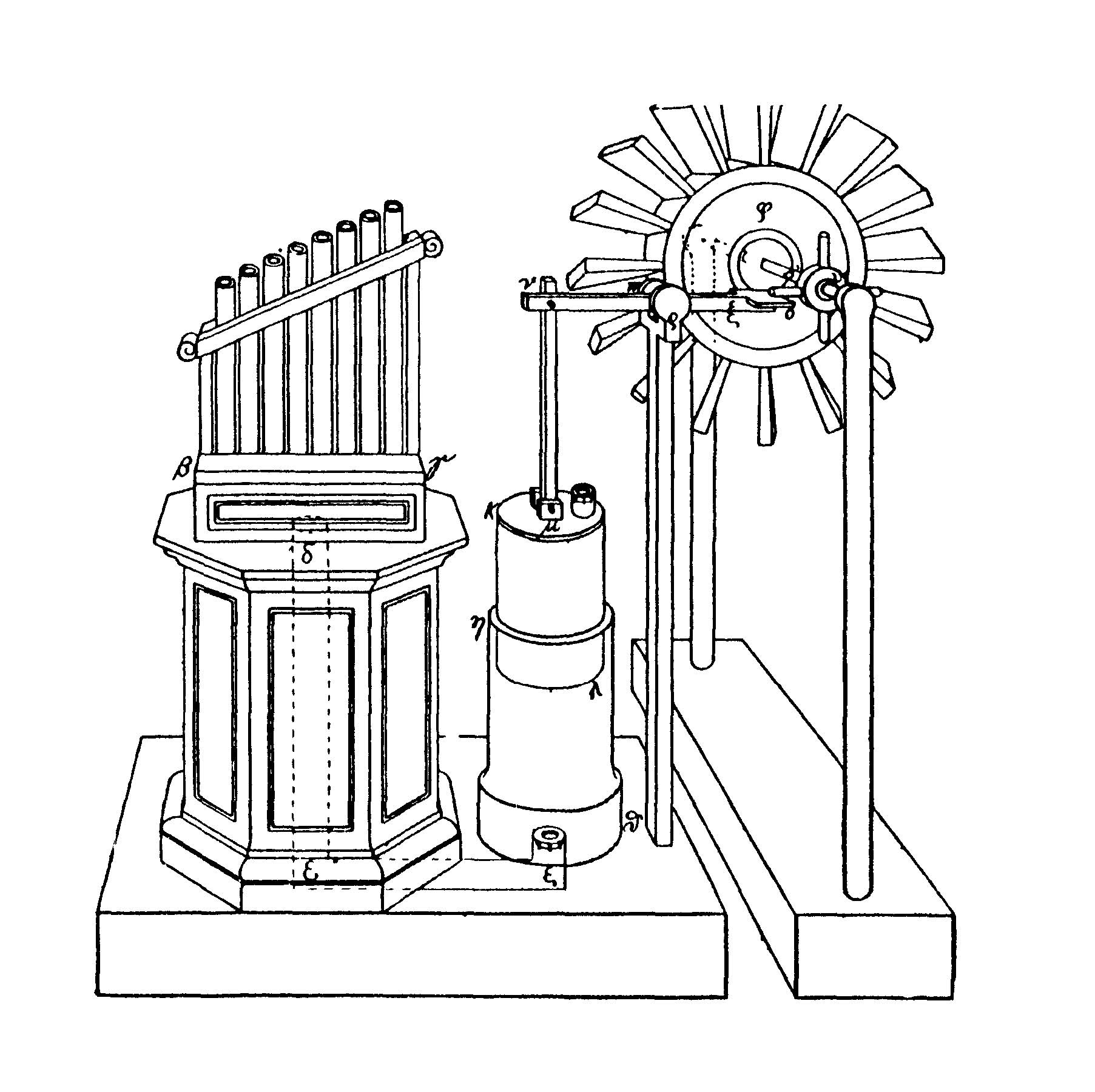 Modern reconstruction of wind organ and wind wheel of Heron of Alexandria (1st century AD) according to W. Schmidt: Herons von Alexandria Druckwerke und Automatentheater, Greek and German, 1899 (Heronis Alexandrini opera I, Reprint 1971), p. 205, fig. 44; cf. introduction p. XXXIX